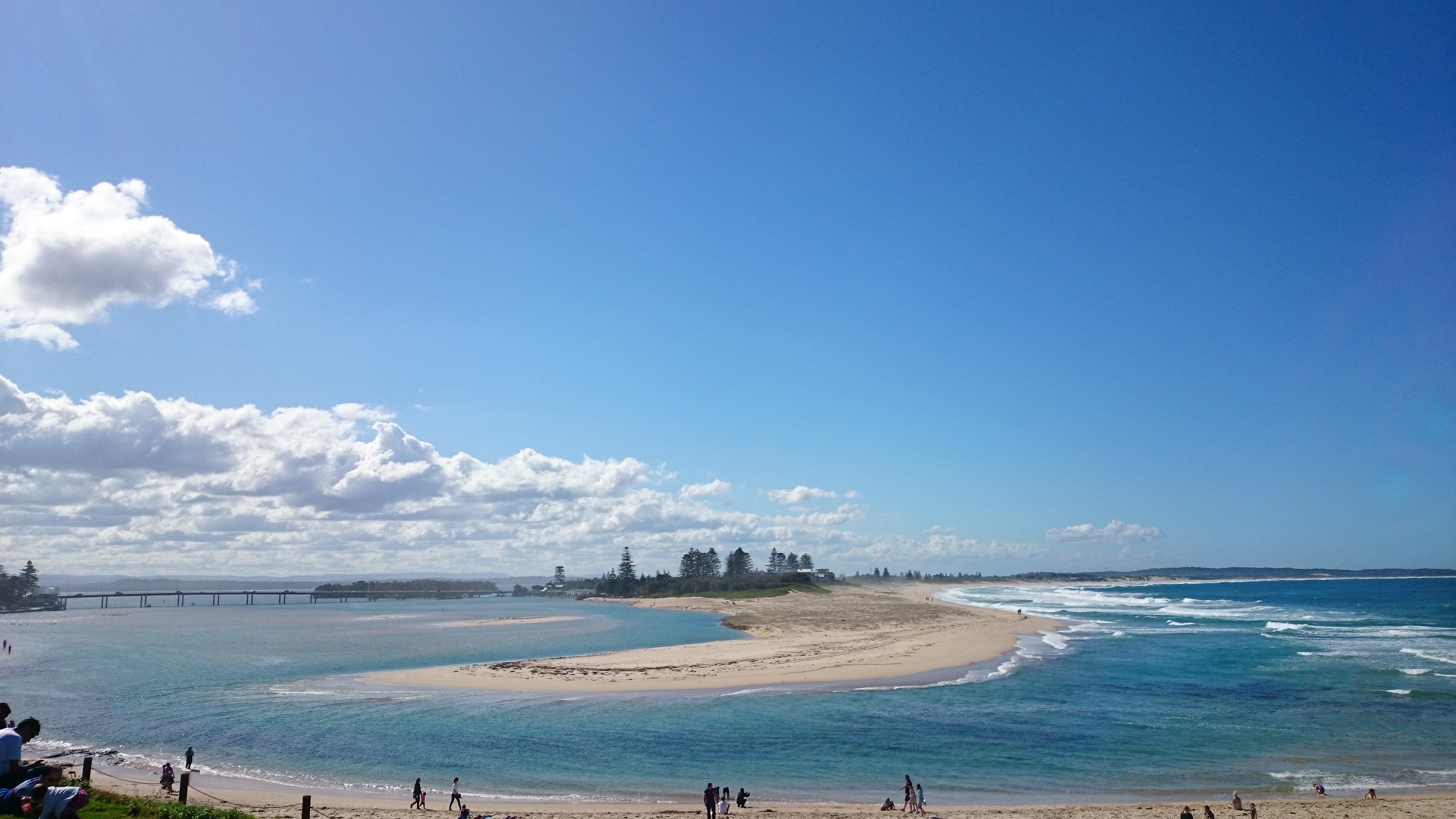 The Entrance